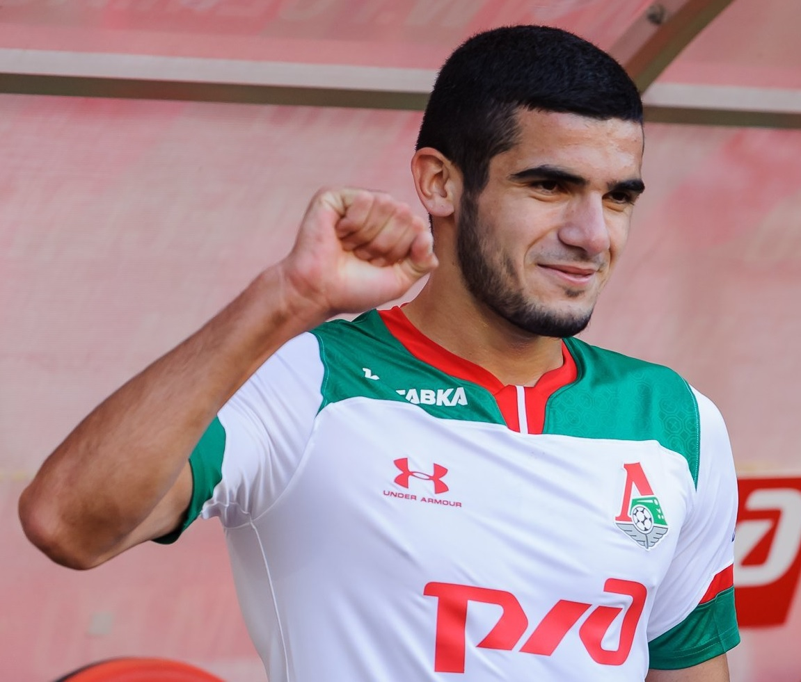 Timur Suleymanov with FC Lokomotiv Moscow after the game against FC Ural Yekaterinburg.